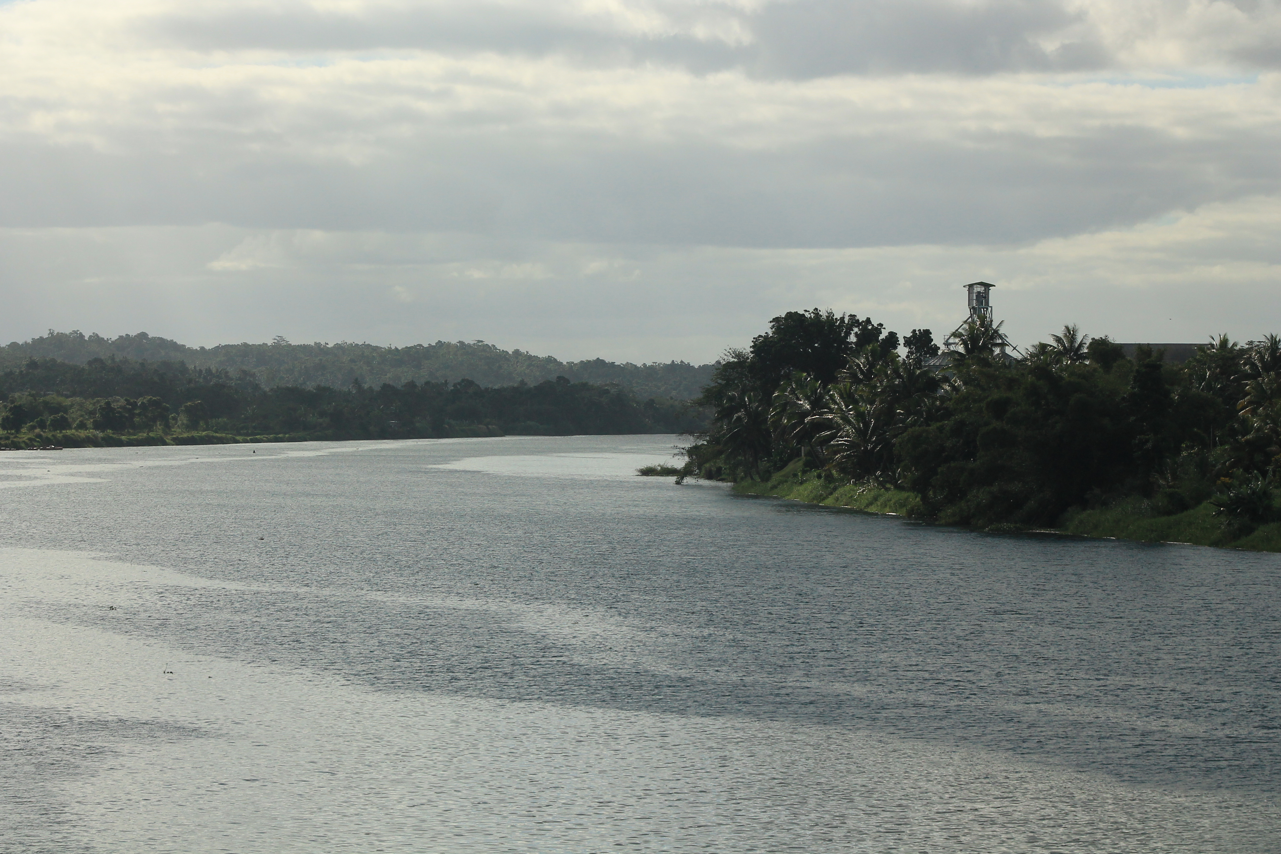 View of Rewa River and Nausori from the old Rewa Bridge